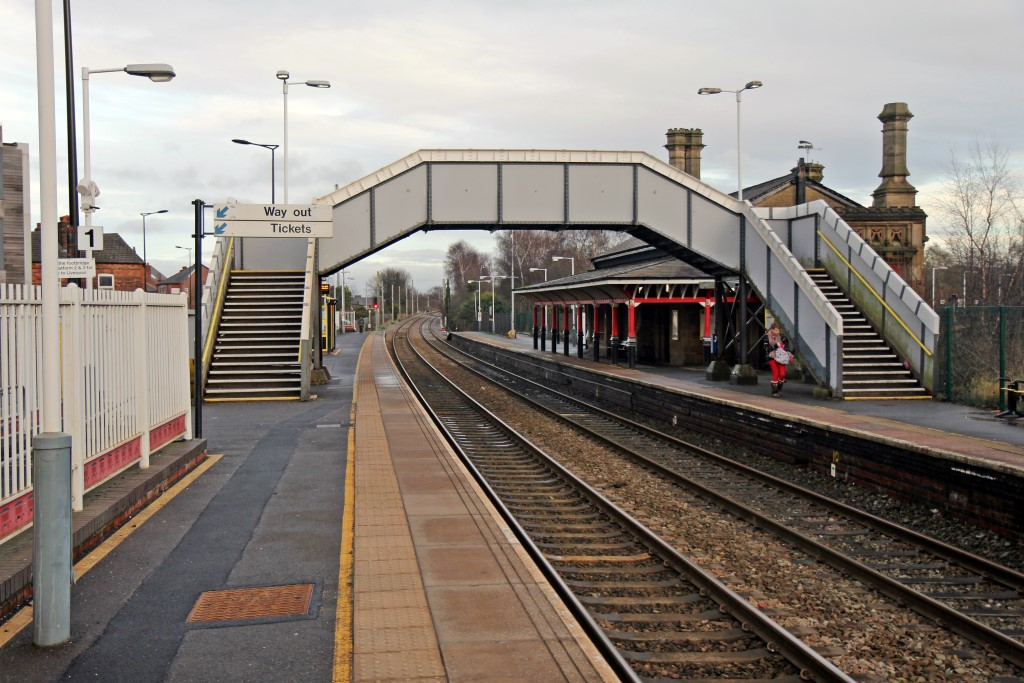 Footbridge, Earlestown railway station